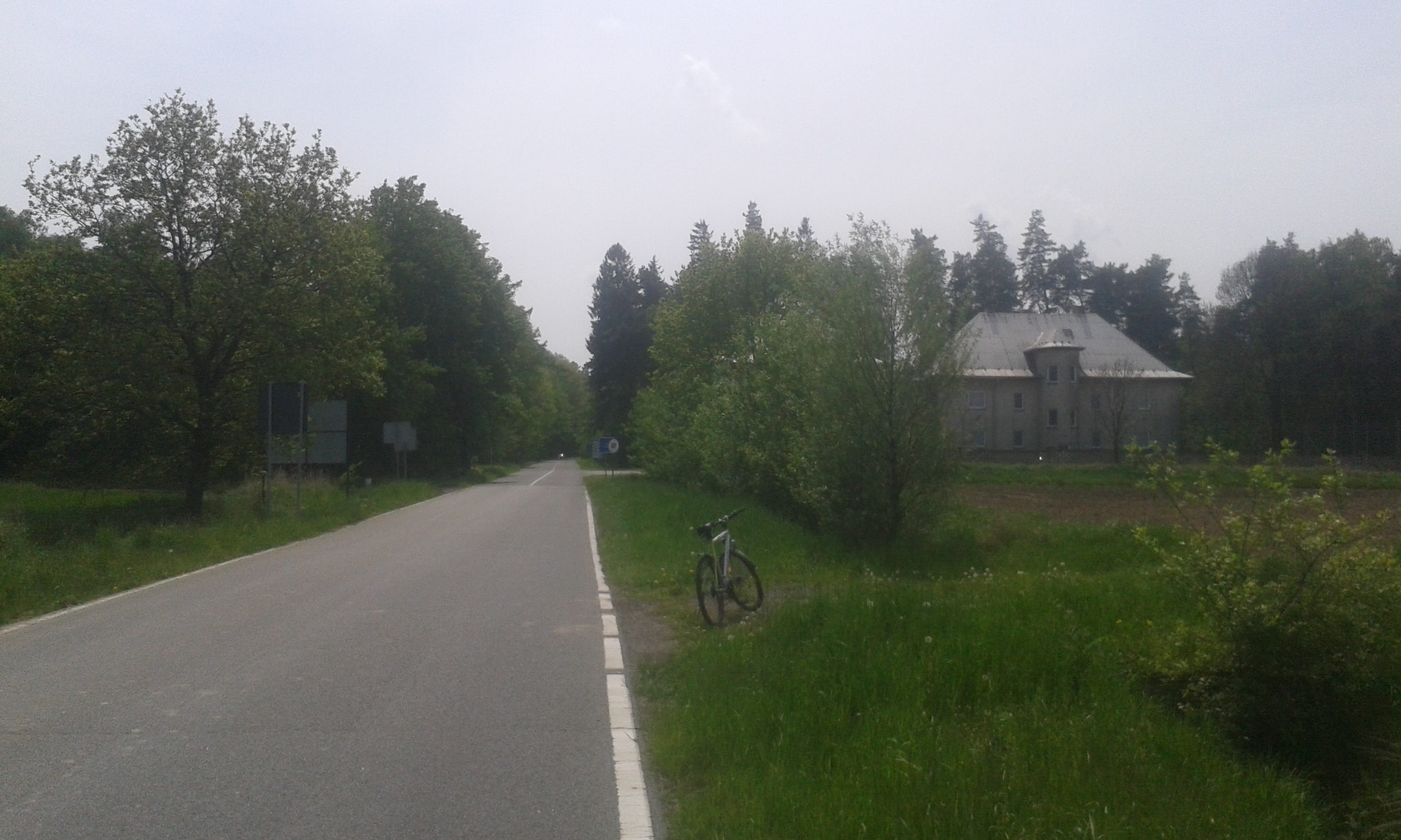 Tworków–Hať border crossing